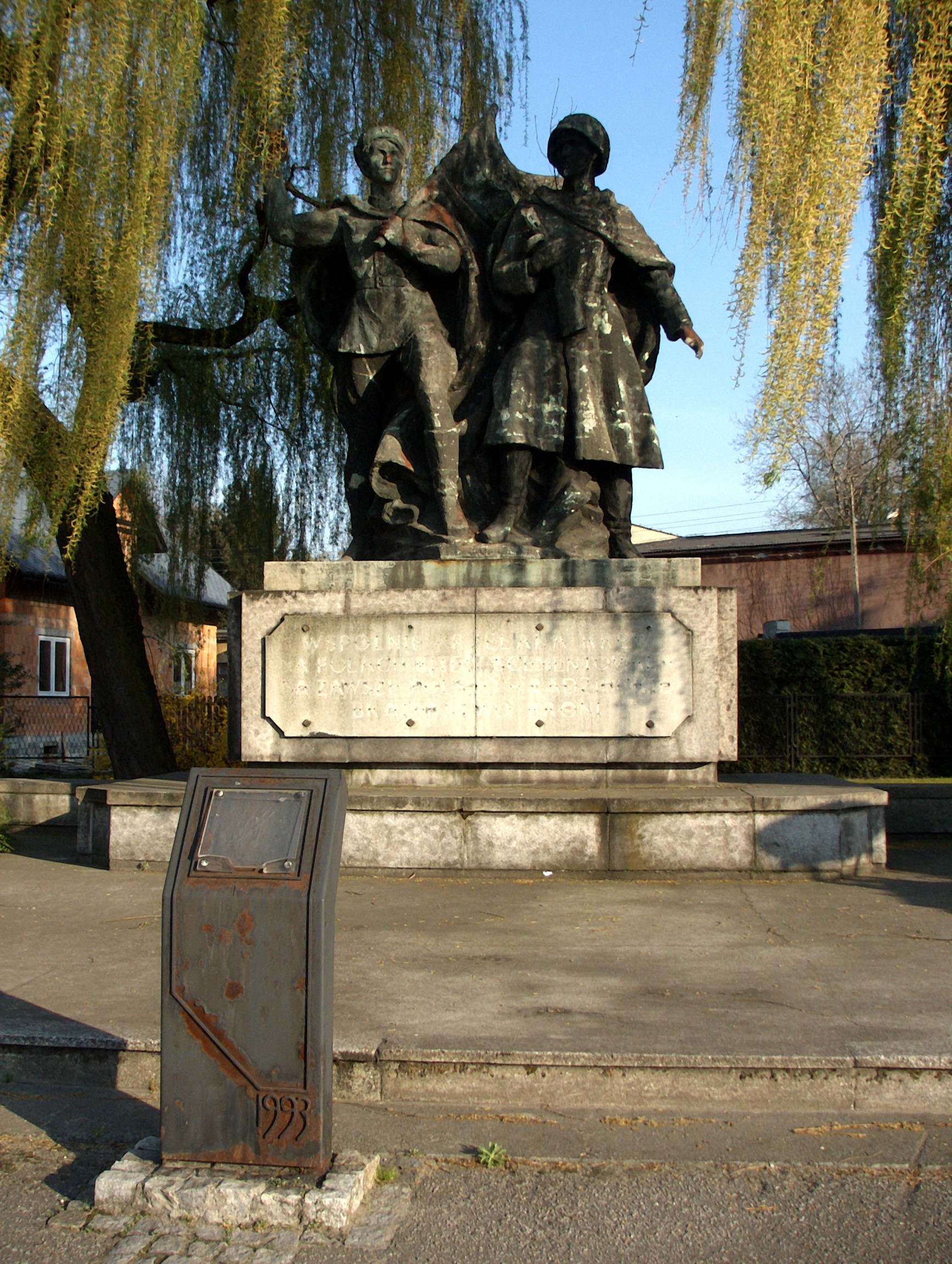 The statue "Brotherhood of Weapon" from PRL in Czechowice-Dziedzice, Poland.